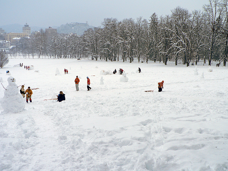 Ljubljana. Tivoli Park under the snow.